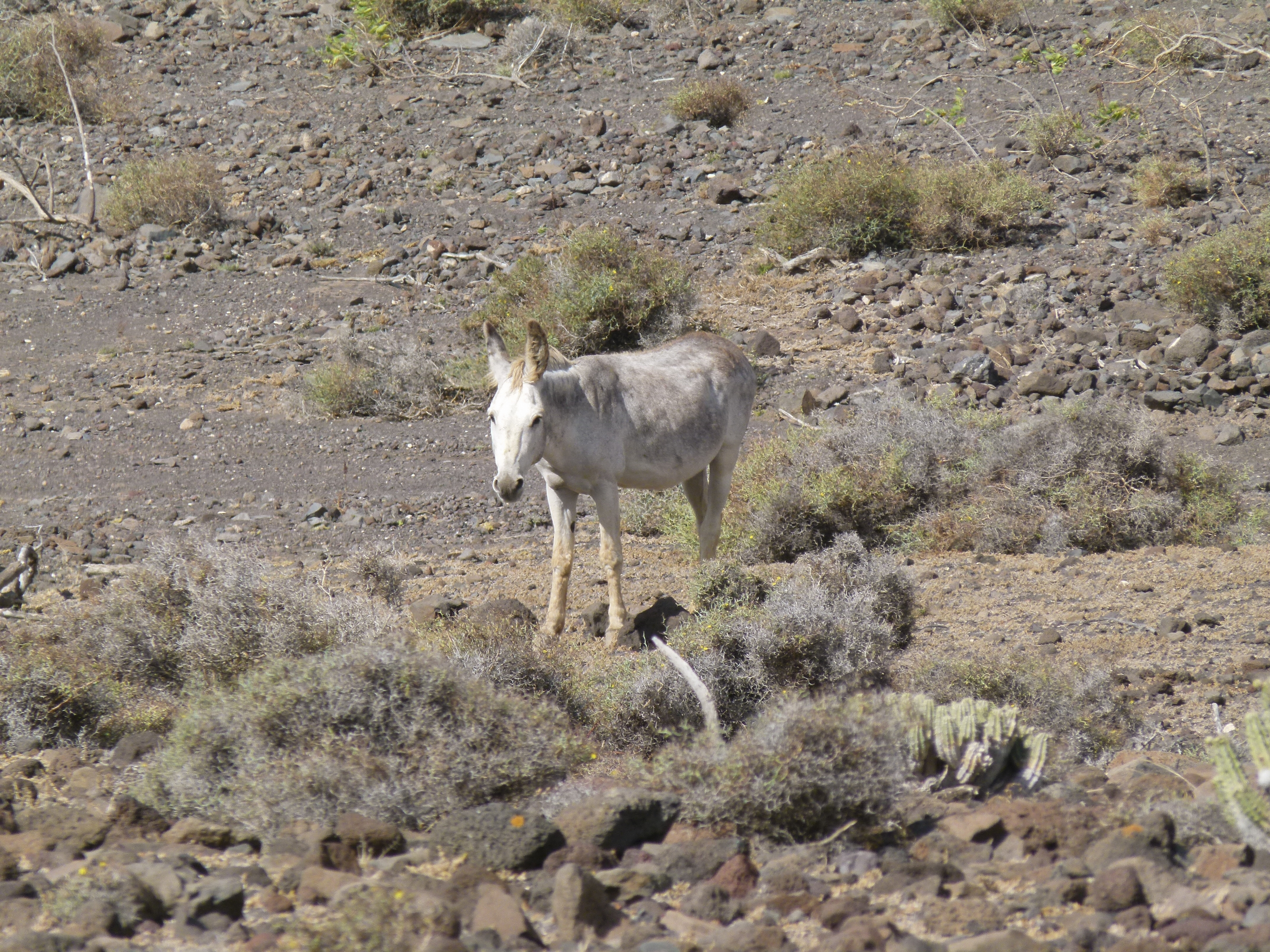 Wild donkey, Gran Valle - Jandia - Fuerteventura - Canary Islands - Spain.